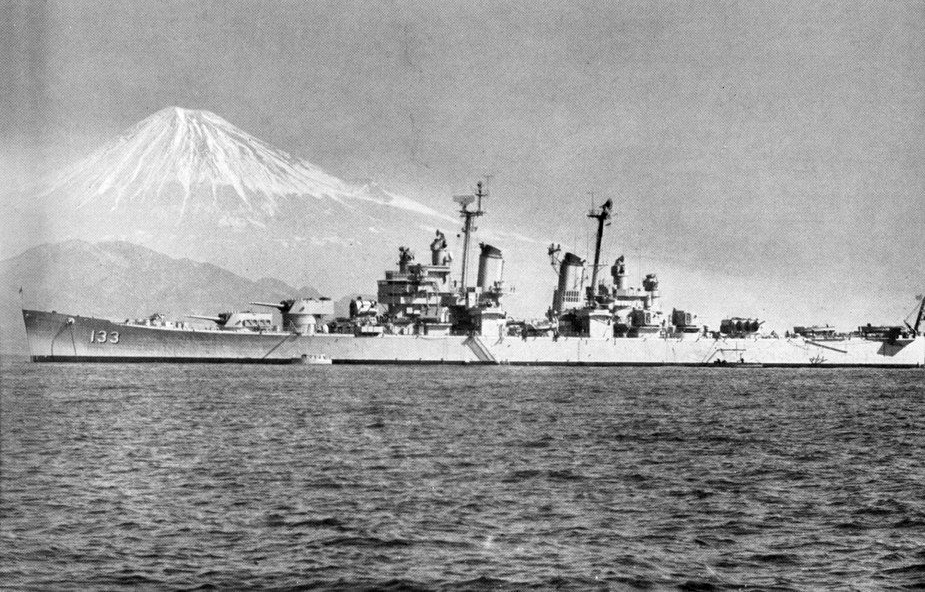 The U.S. Navy heavy cruiser USS Toledo (CA-133) anchoring in Tokyo Bay, in 1959.